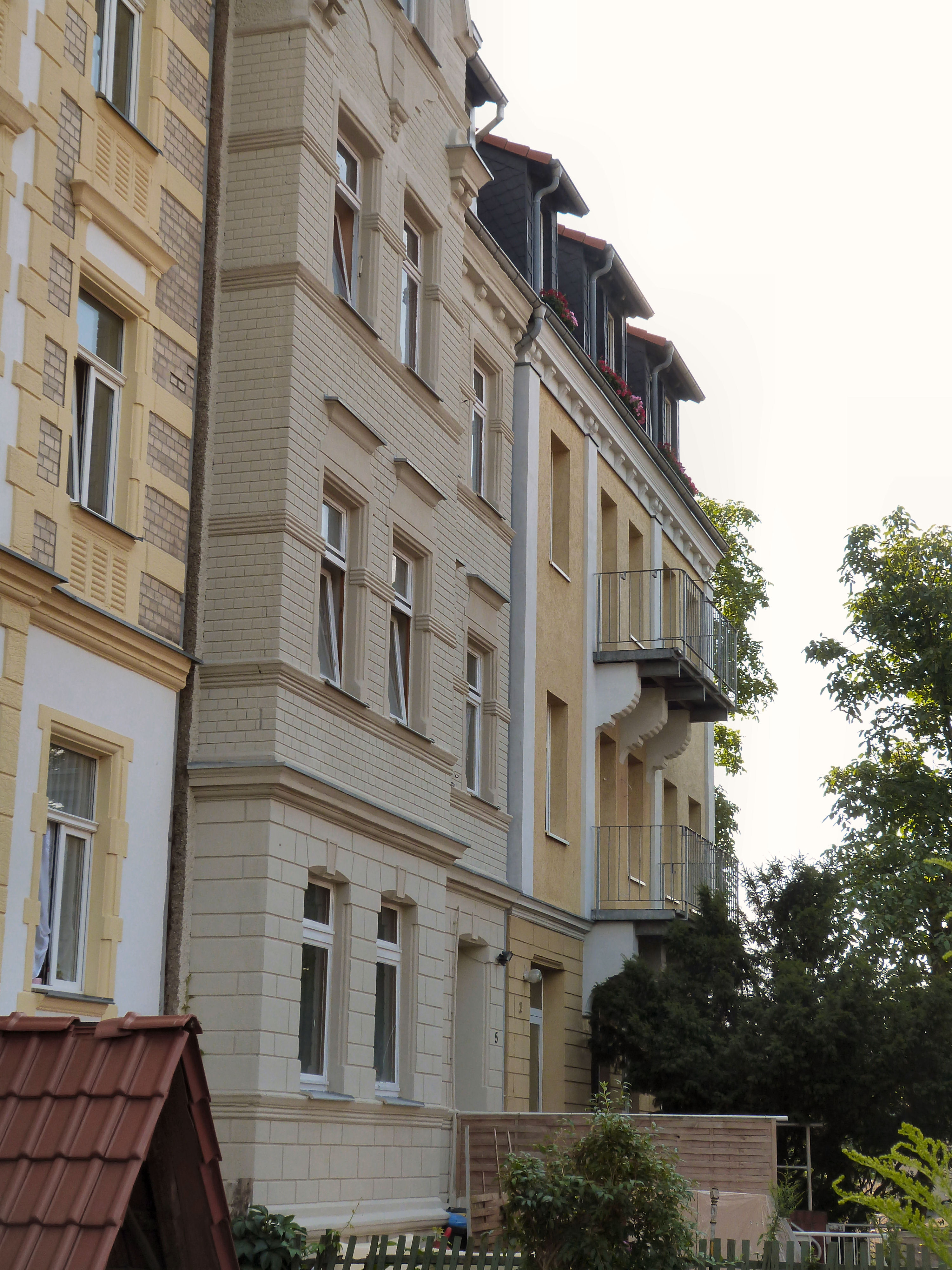 Houses No. 3 and No. 5, Am Mühlberg, Weissenfels